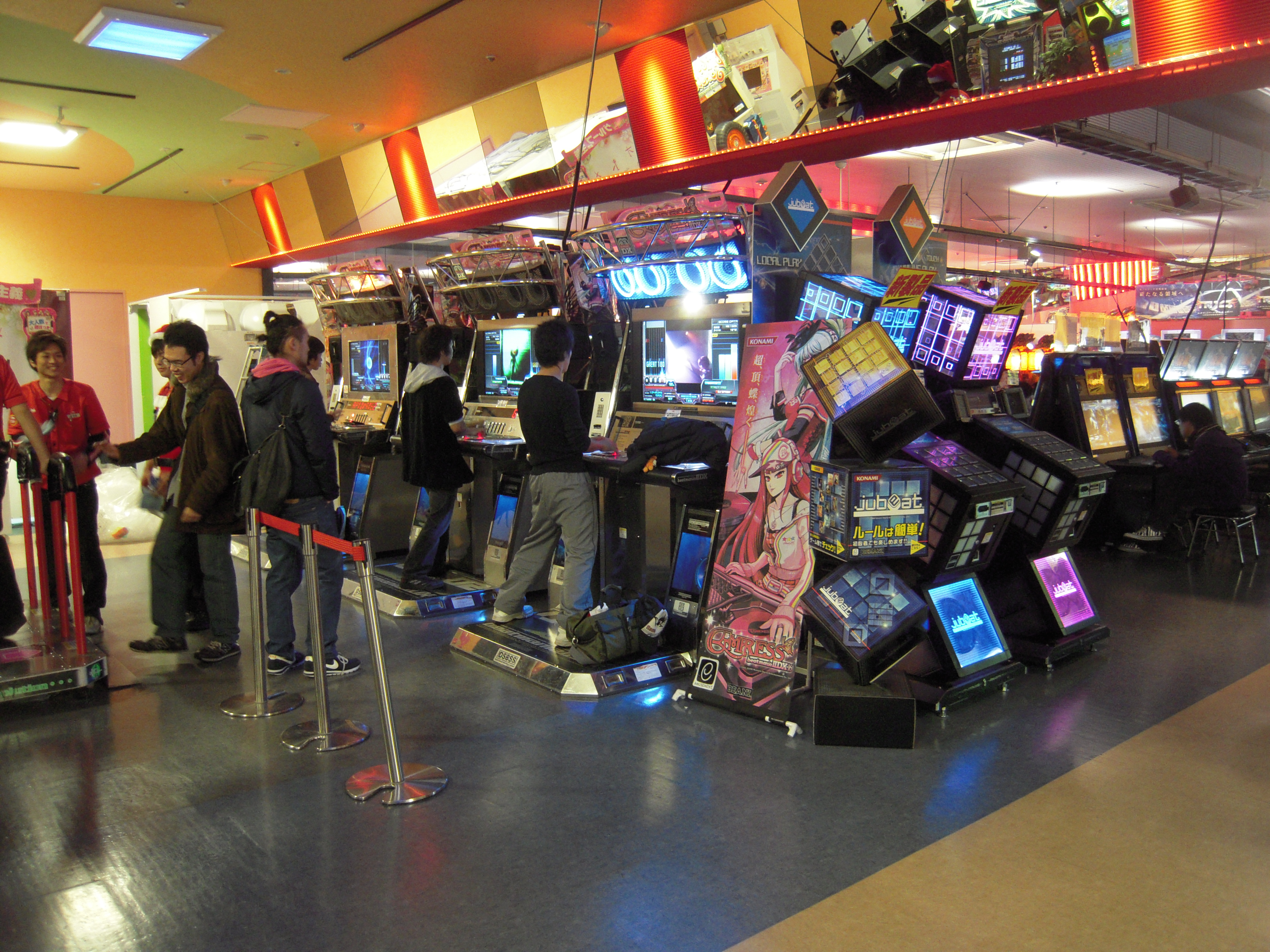 An Arcadian game full of Bemani Games.